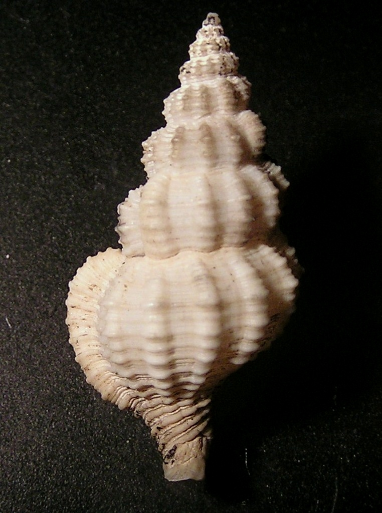 Nassaria exquisita Fraussen & Poppe, 2007 , a true whelk from the family Buccinidae; South China Sea